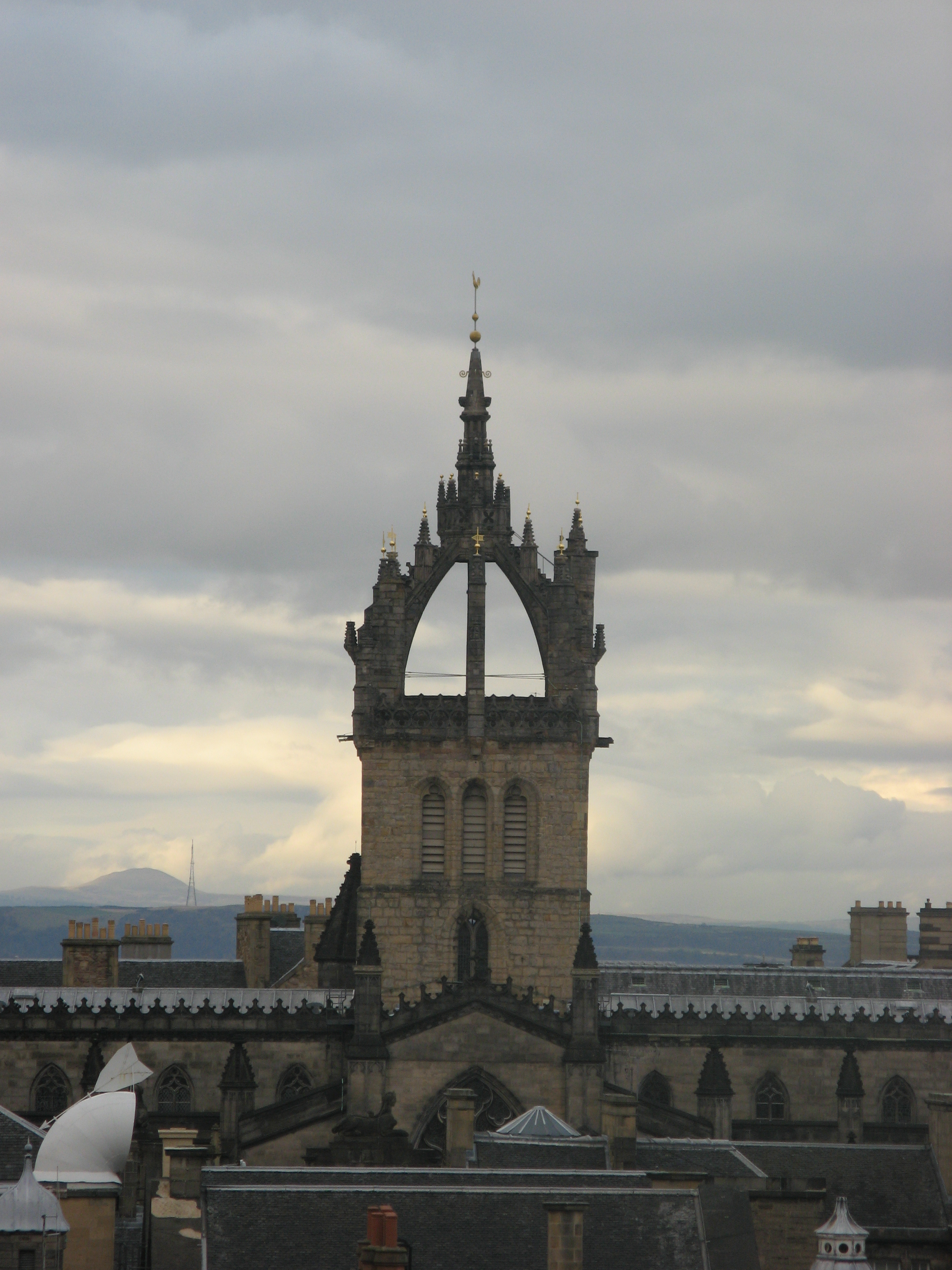 The crown steeple of St Giles Cathedral, Edinburgh, seen from the roof of the National Museum of Scotland